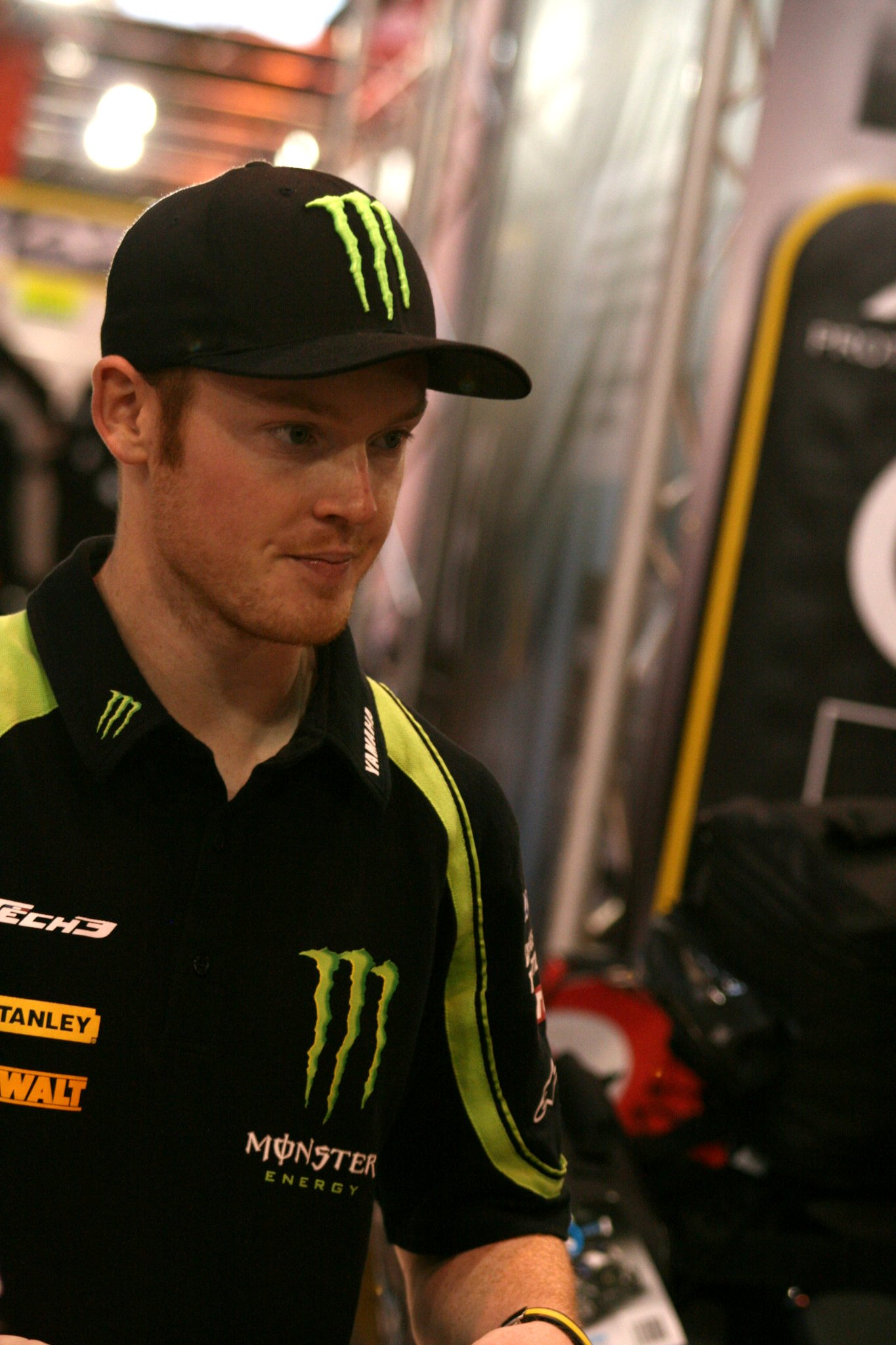 Bradley Smith at Motorcycle Live 2012, Birmingham